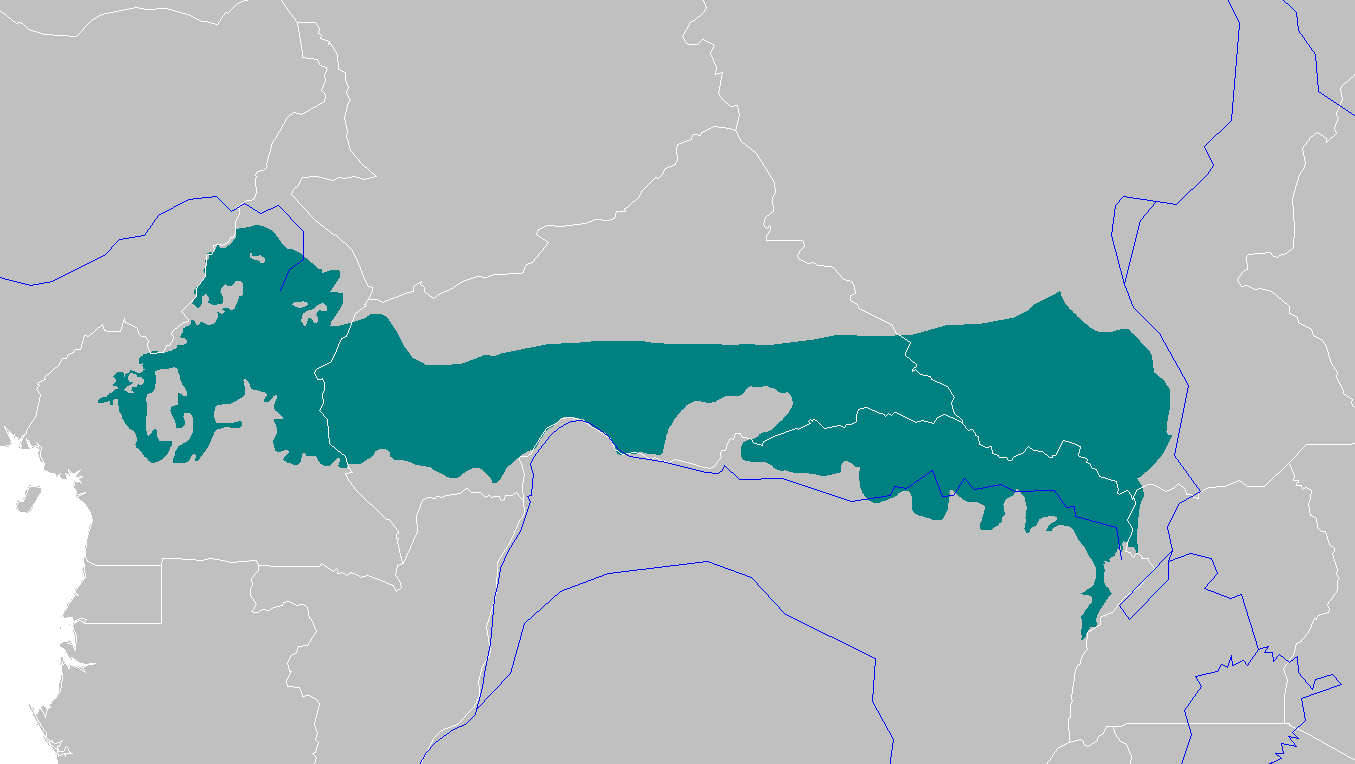 Northern Congolian forest-savanna mosaic ecoregion map — of the Tropical and subtropical grasslands, savannas, and shrublands Biome, in Central Africa.